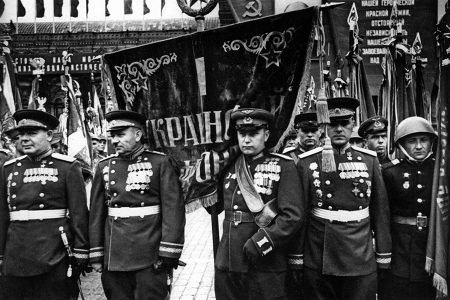 Soviet Victory Parade on Red Square